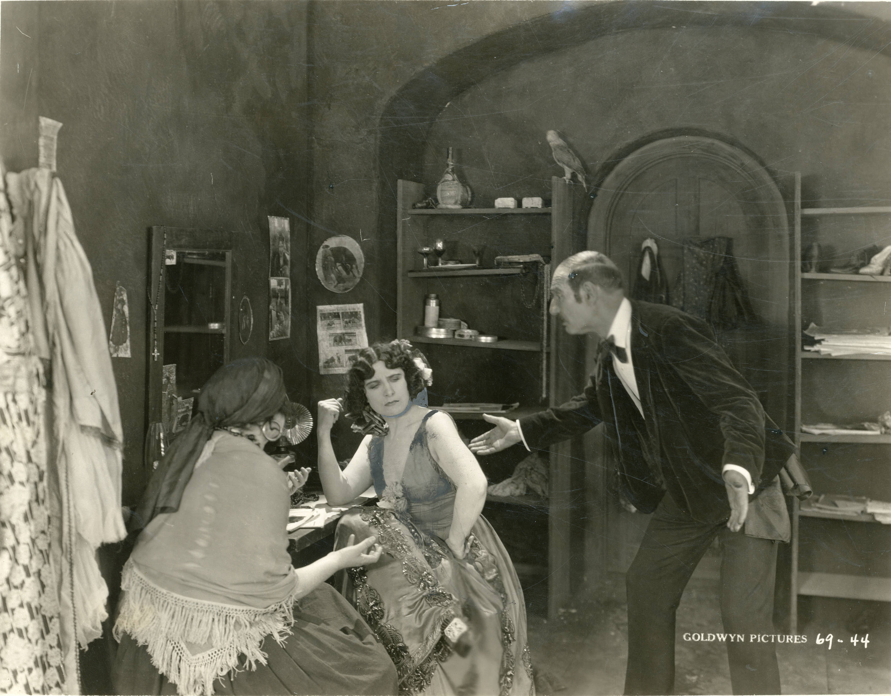 A scene from the American film The Woman and the Puppet (1920), which played at the Clemmer Theater, Seattle. Date stamped May 26, 1920. Subjects: motion pictures, actresses